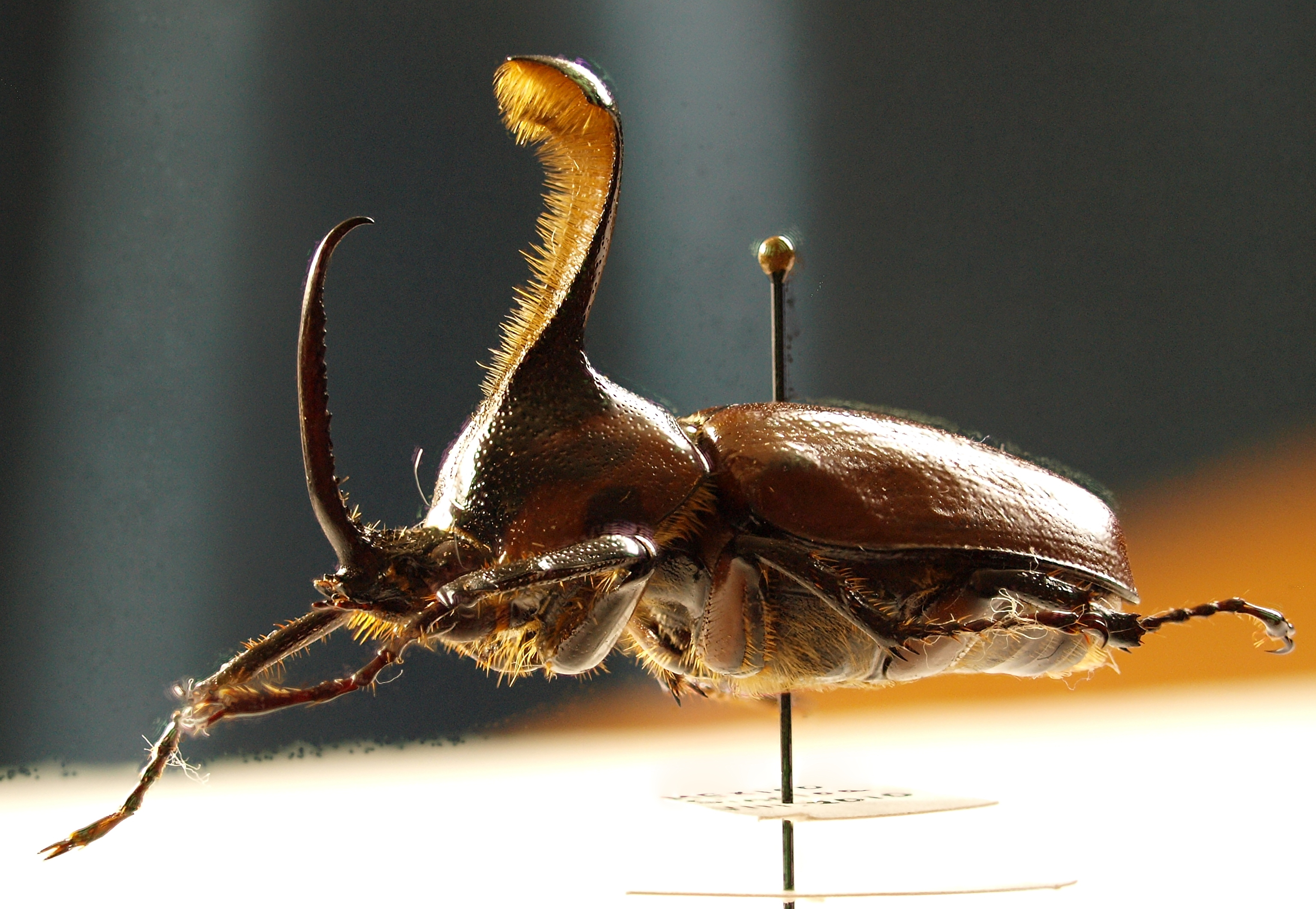 Golofa xiximeca, male, stacked image. Source: own collection